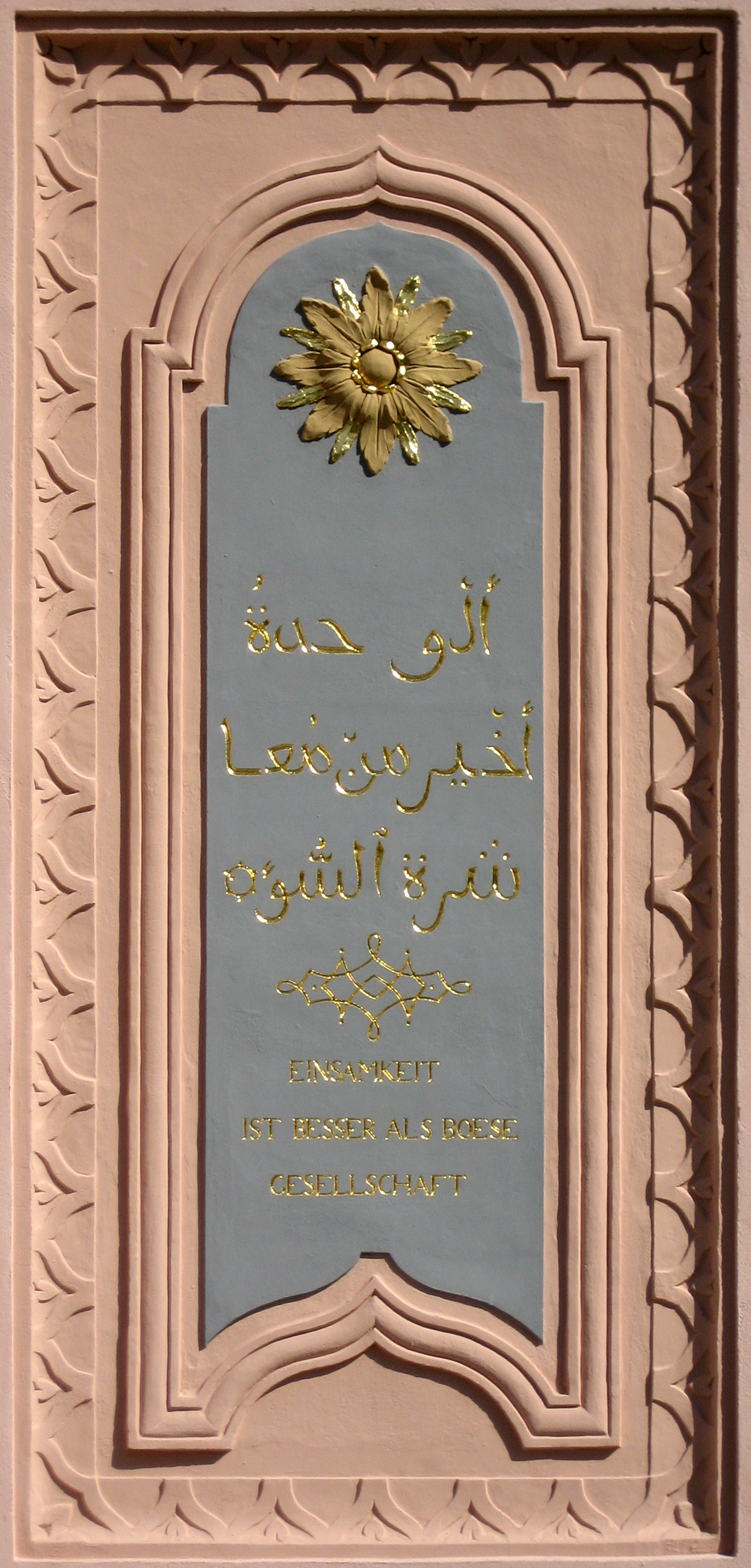 Mosque, Castle Garden of Schwetzingen, inscription